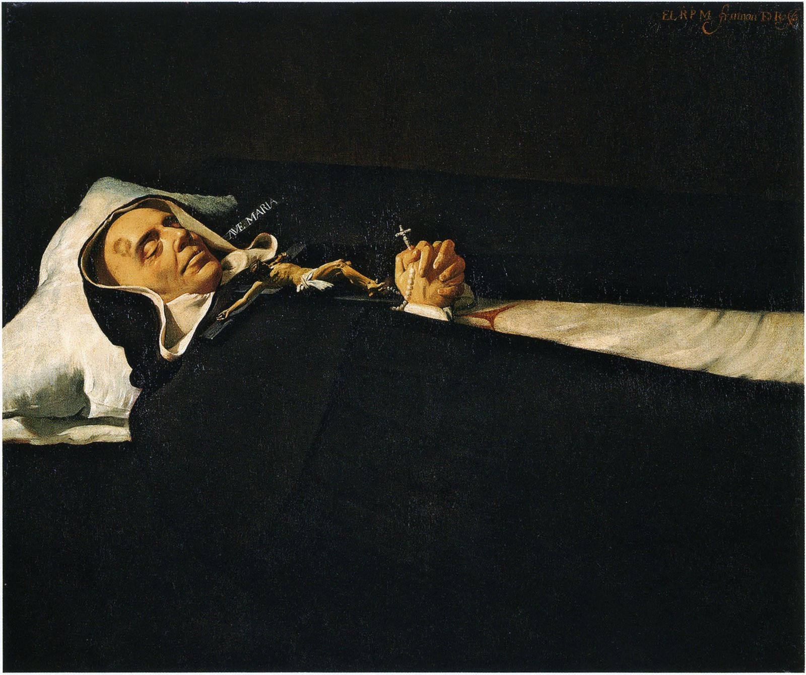 Portrait of Saint Simon of Rojas dead, 1624, by D. Velázquez. Collections of the Dukes of Infantado, Madrid